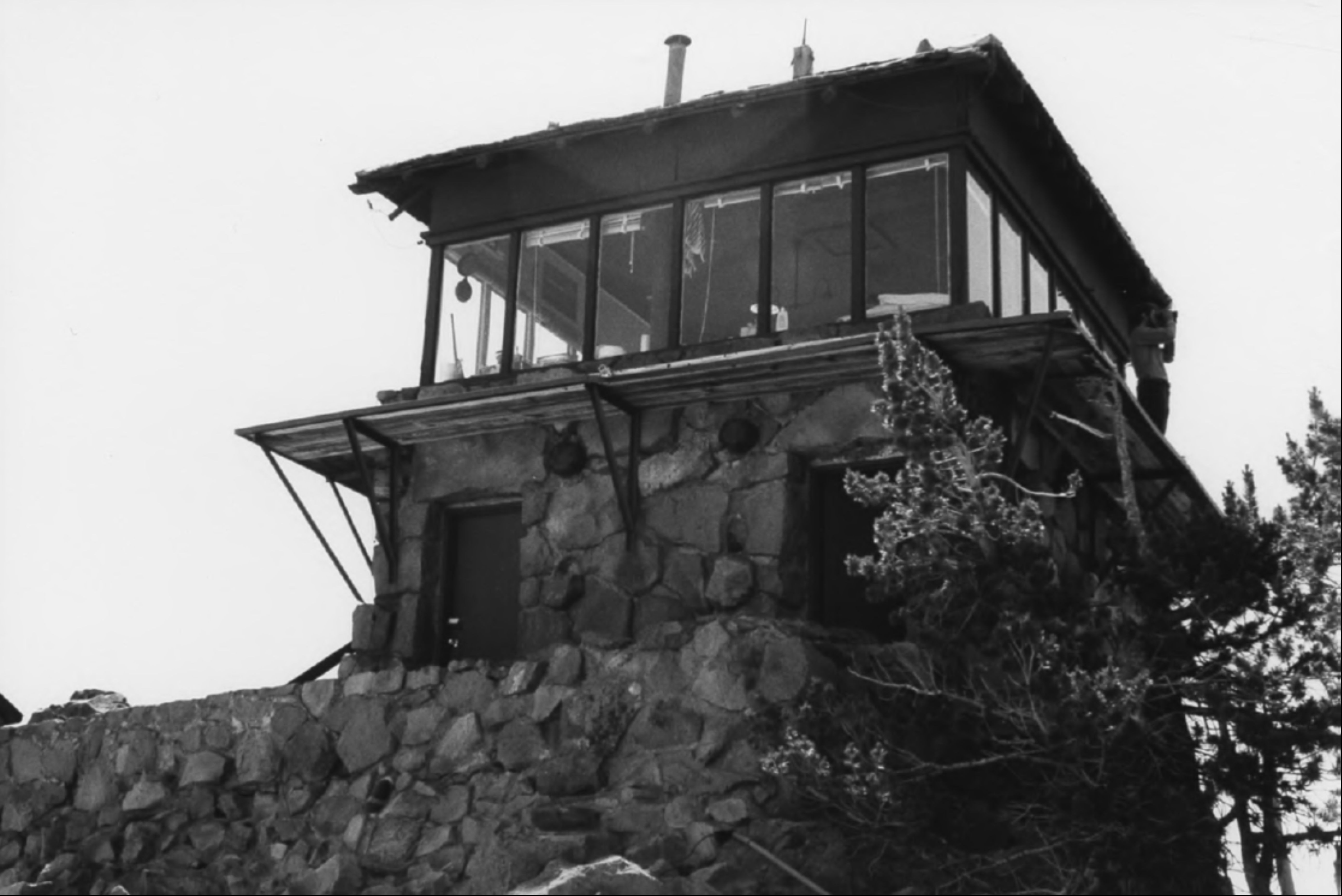 North elevation of Watchman Lookout Station #168 in Crater Lake National Park in Oregon